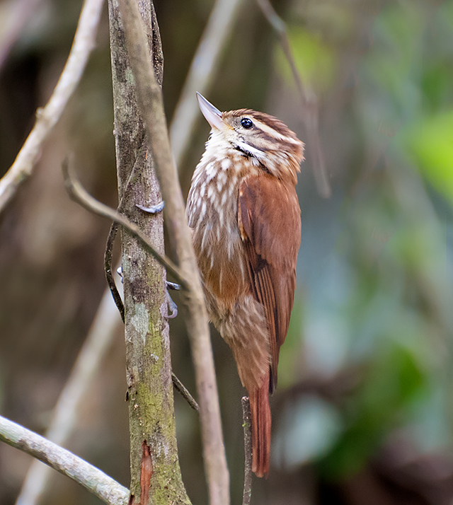 A Streaked Xenops in Piraju, São Paulo, Brazil.